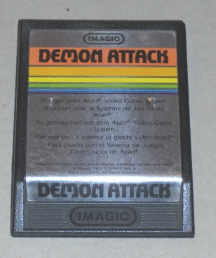 Atari 2600 cartridge for the Imagic game Demon Attack